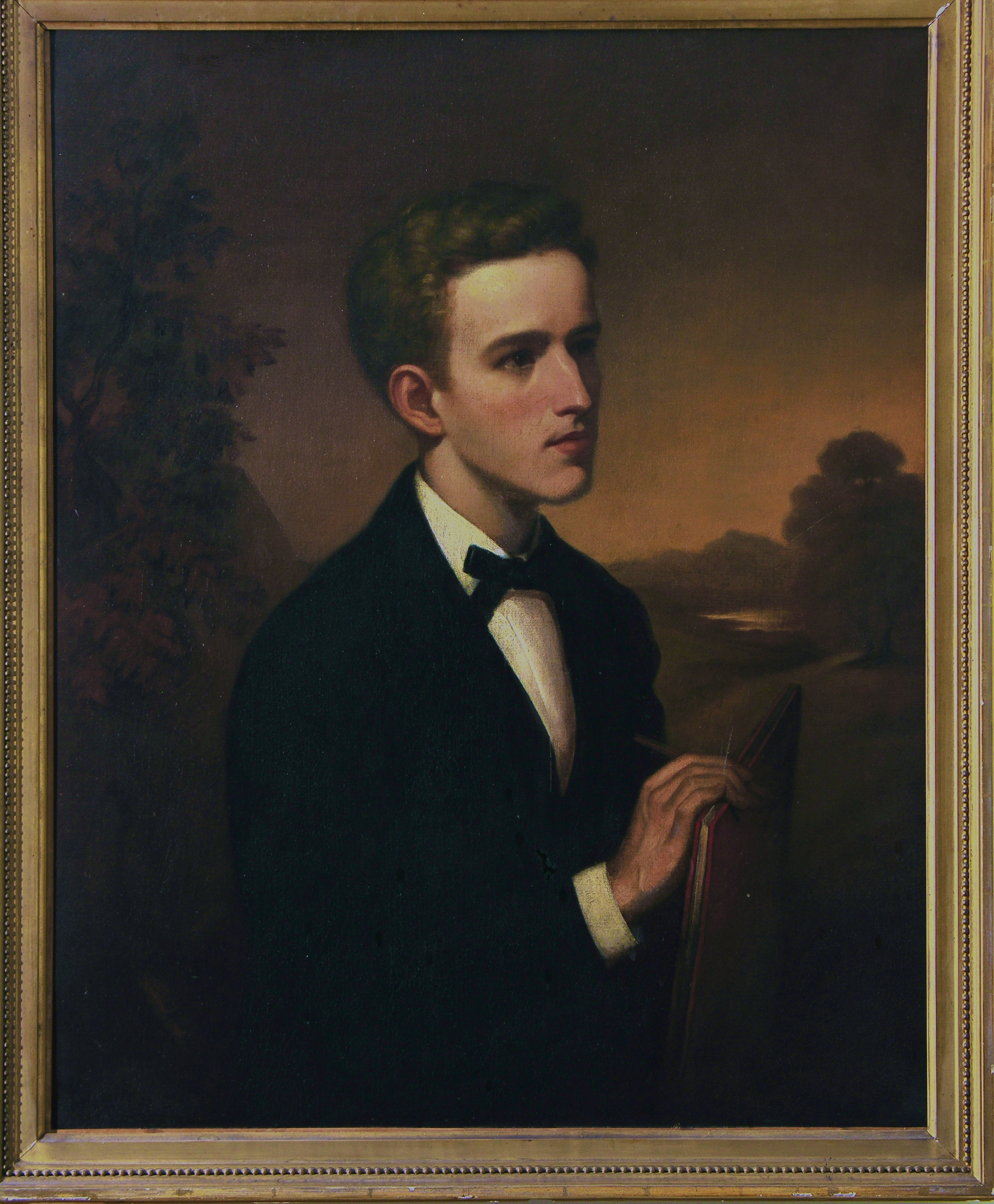 Herbert Welsh, from the collection of Andrew Imbrie Dayton